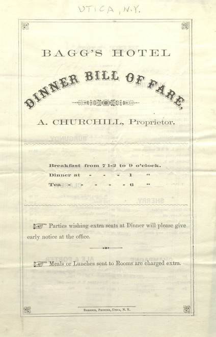 Menus from hotels, restaurants, and steamboats in the 1850s and 60s. The name A. Churchill, Proprietor, is prominently displayed on the title page of this menu.